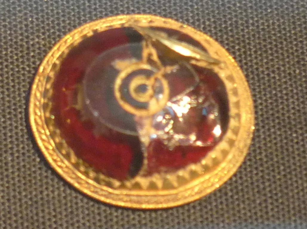 This sword fitting with garnets within the Staffordshire Hoard comes from a long or short sword. It is one of about 19 pieces in the Hoard where slivers of garnet have been used to create the figures of animals rather than more usual geometric patterns.